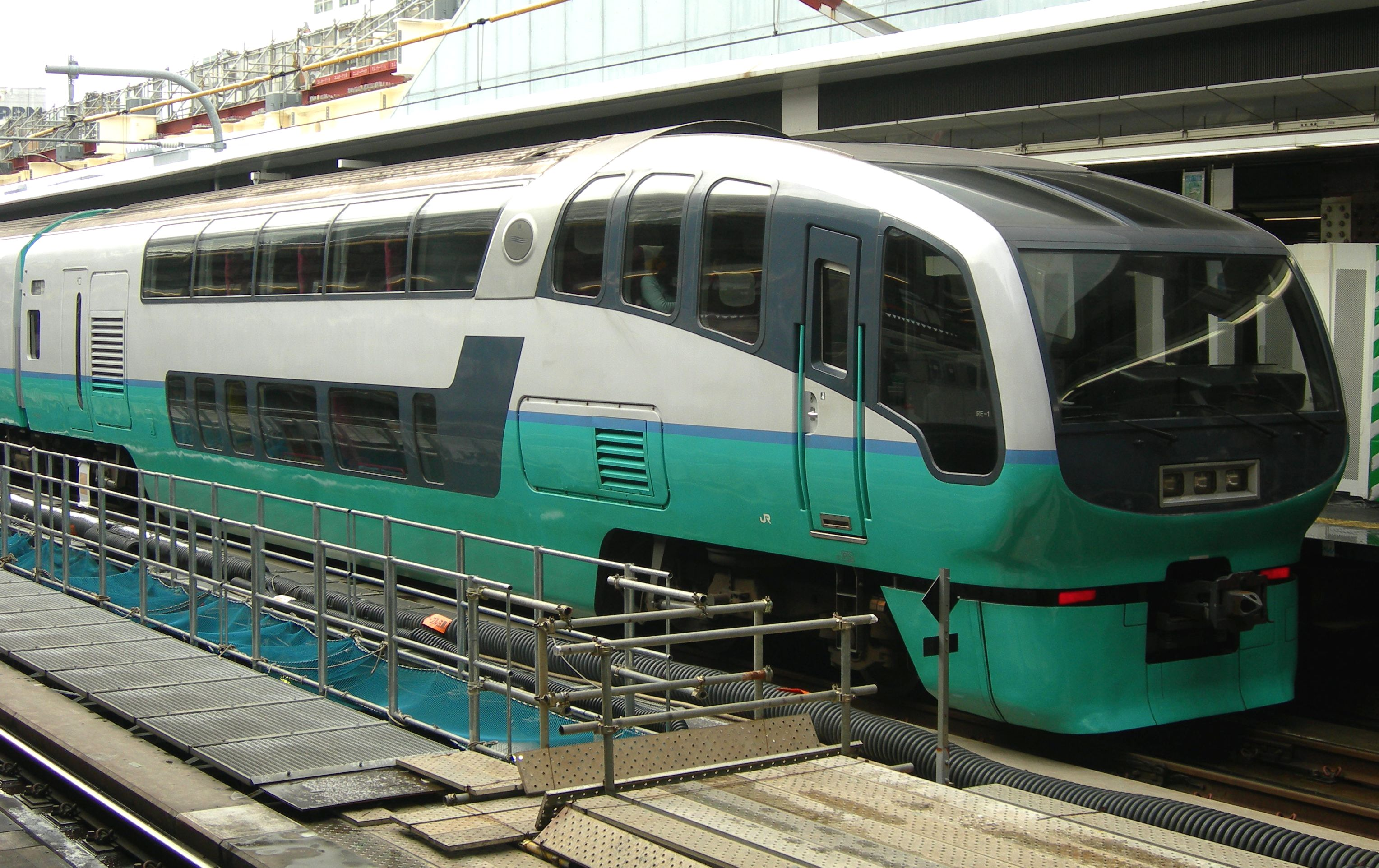 JR East 251 series EMU car KuHa 251-1 (car 10 of set RE1) at Shinjuku Station